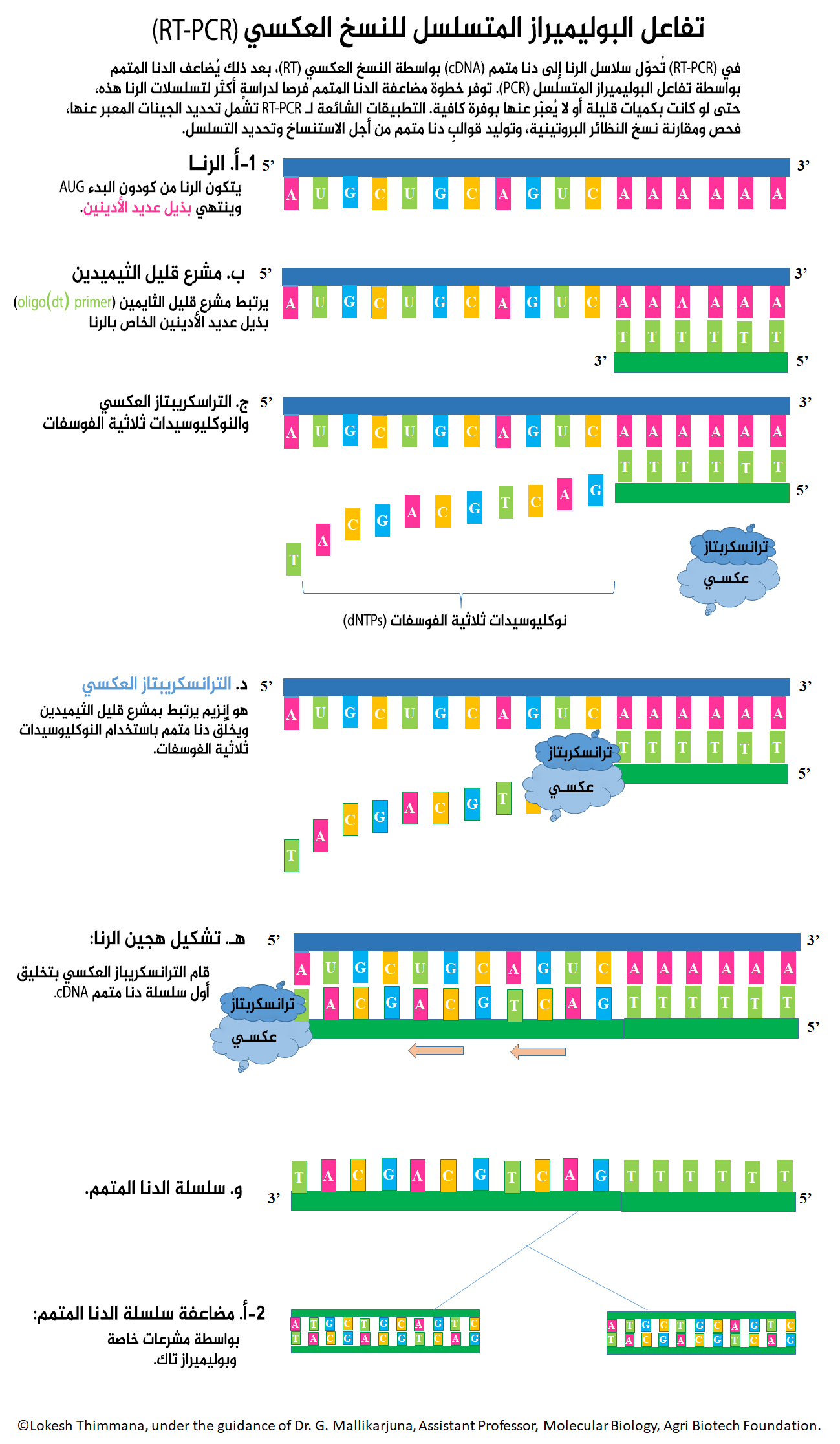 Reverse Transcription - PCR cDNA Synthesis from mRNA by using M-MuLV reverse transcriptase and cDNA Amplification with specific primers by using Taq Polymerase